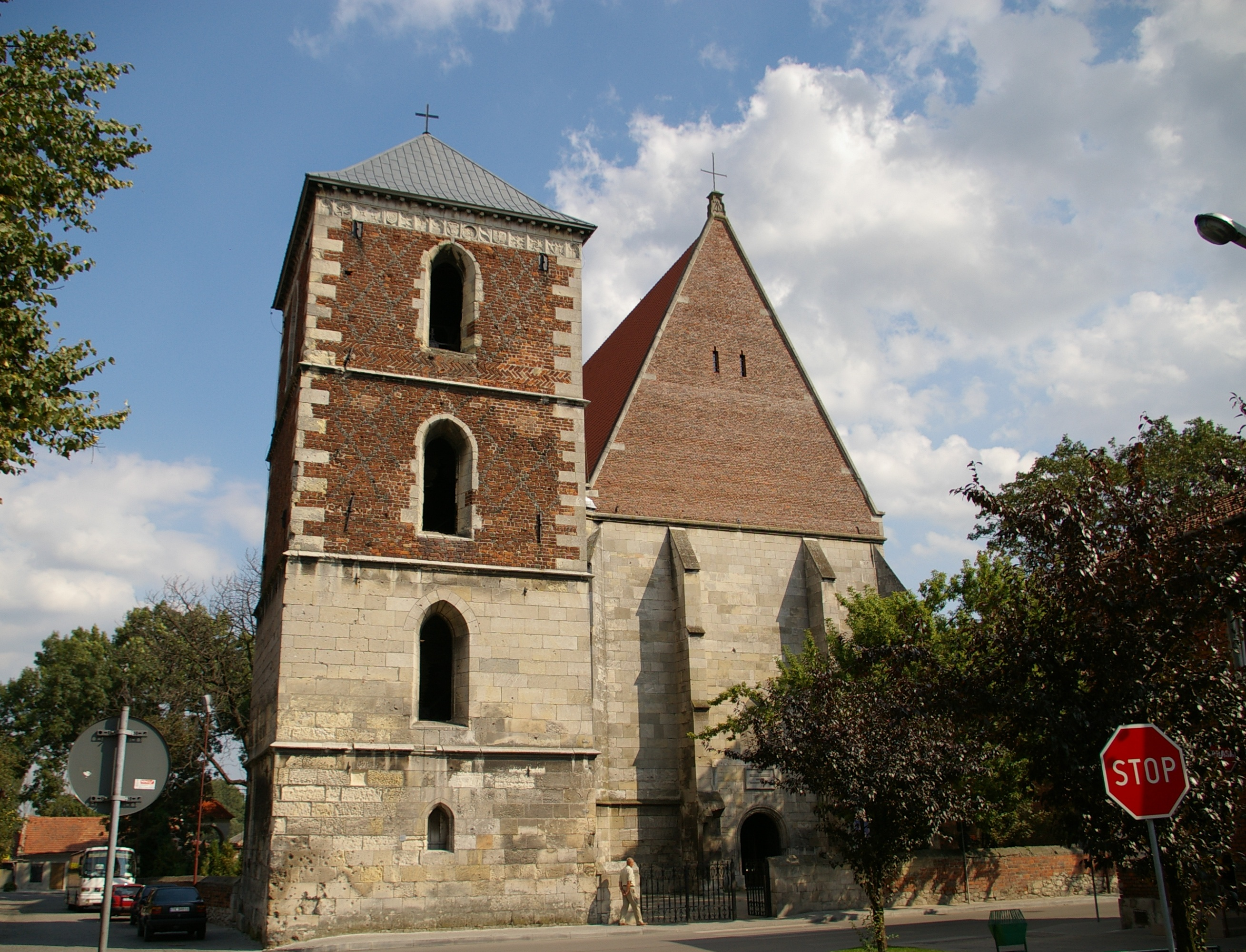 Basilica of the Birth of the Blessed Virgin Mary and the bell tower in Wiślica, Poland